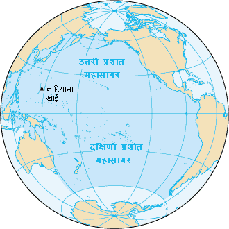 Pacific Ocean map, tagged in English